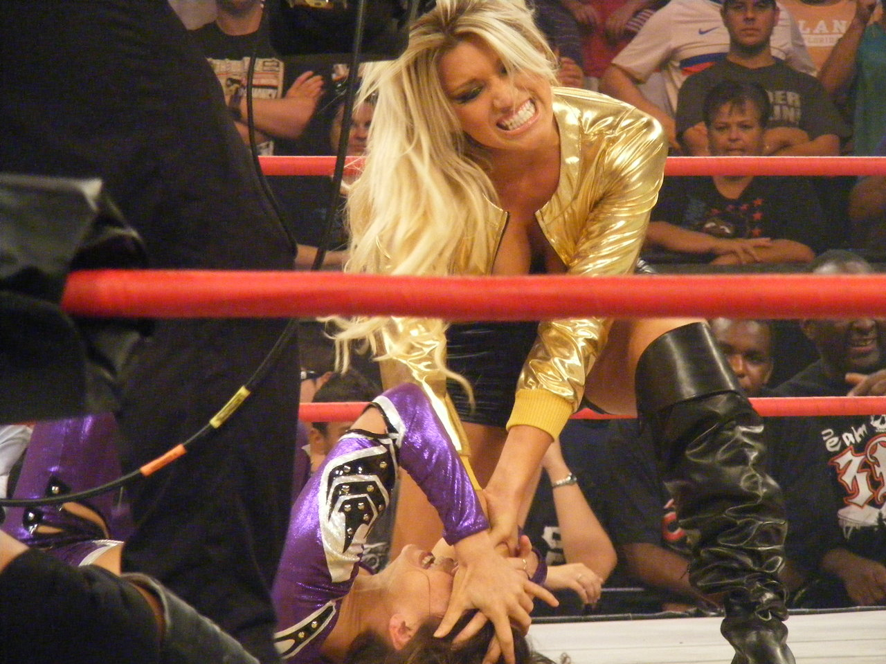 Lacey Von Erich applying the Iron Claw.